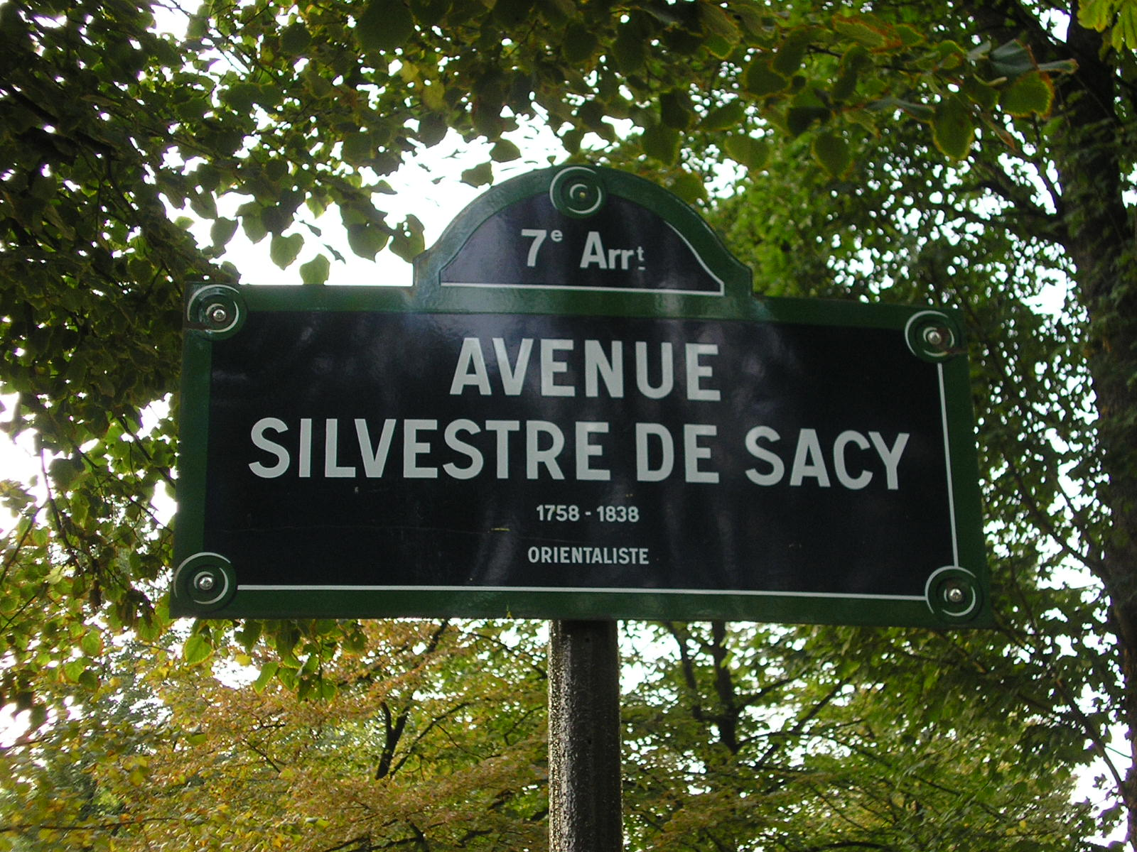 One of the four alleys around the Eiffel Tower.